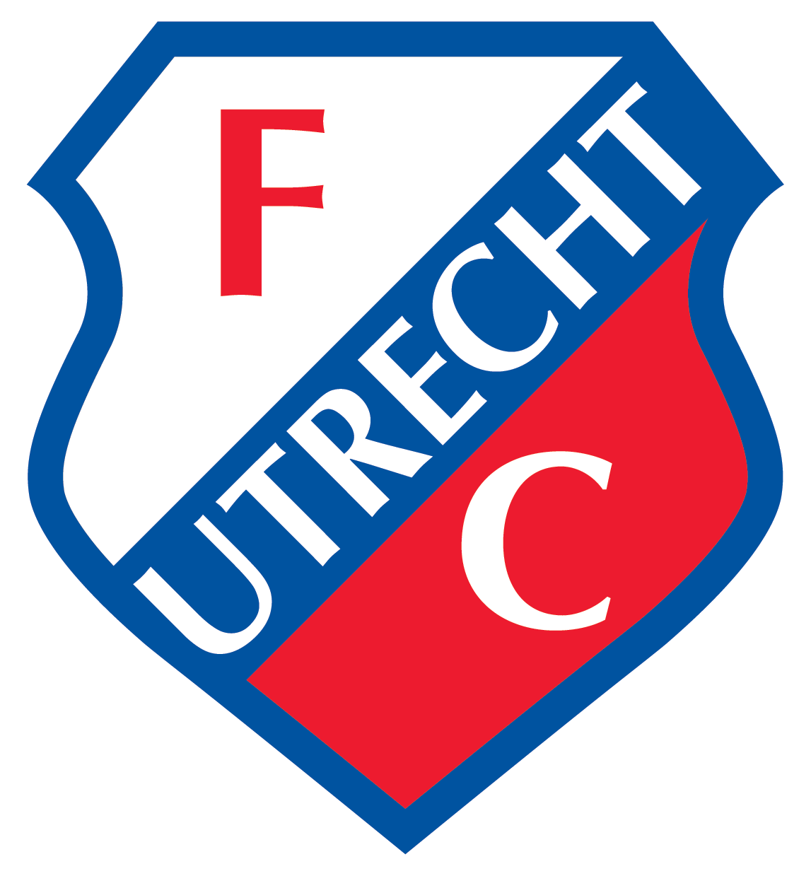 FC Utrecht Logo